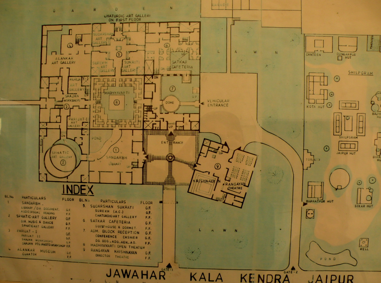 Plan of Jawahar Kala Kendra, inspired by the original city plan of Jaipur, consisting of nine squares with central square left open.